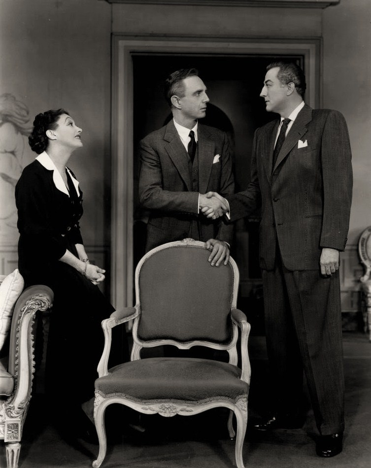 L. to R. : Katharine Cornell, Robert Flemyng & John Emery in the W. Somerset Maugham play's The Constant Wife, Chicago - publicity still (cropped : see source)